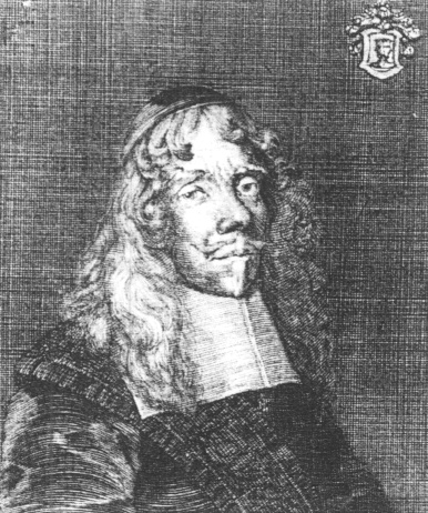 Martin Weise (1605-1693) German physician